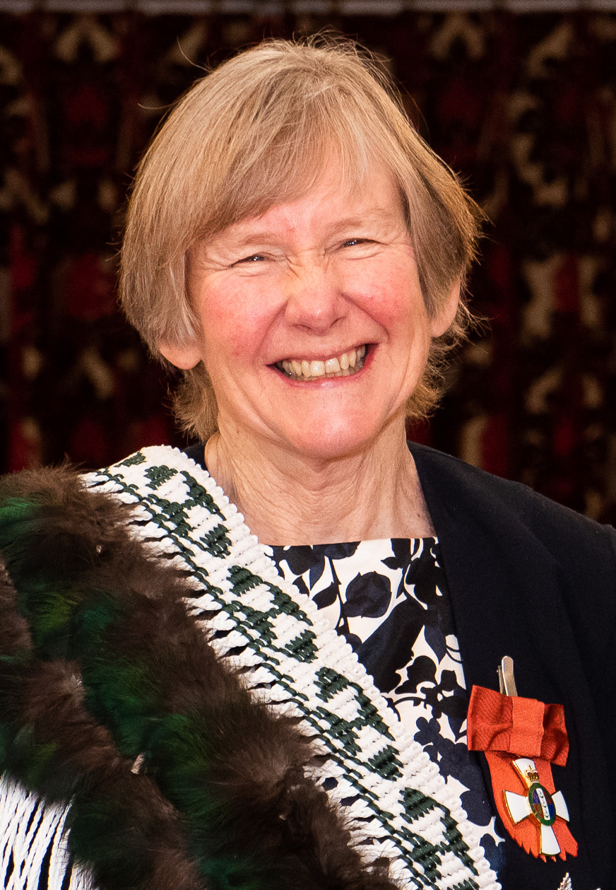 Dame Sue Bagshaw, after her investiture as DNZM, for services to youth health, at Government House, Wellington, on 18 September 2019.